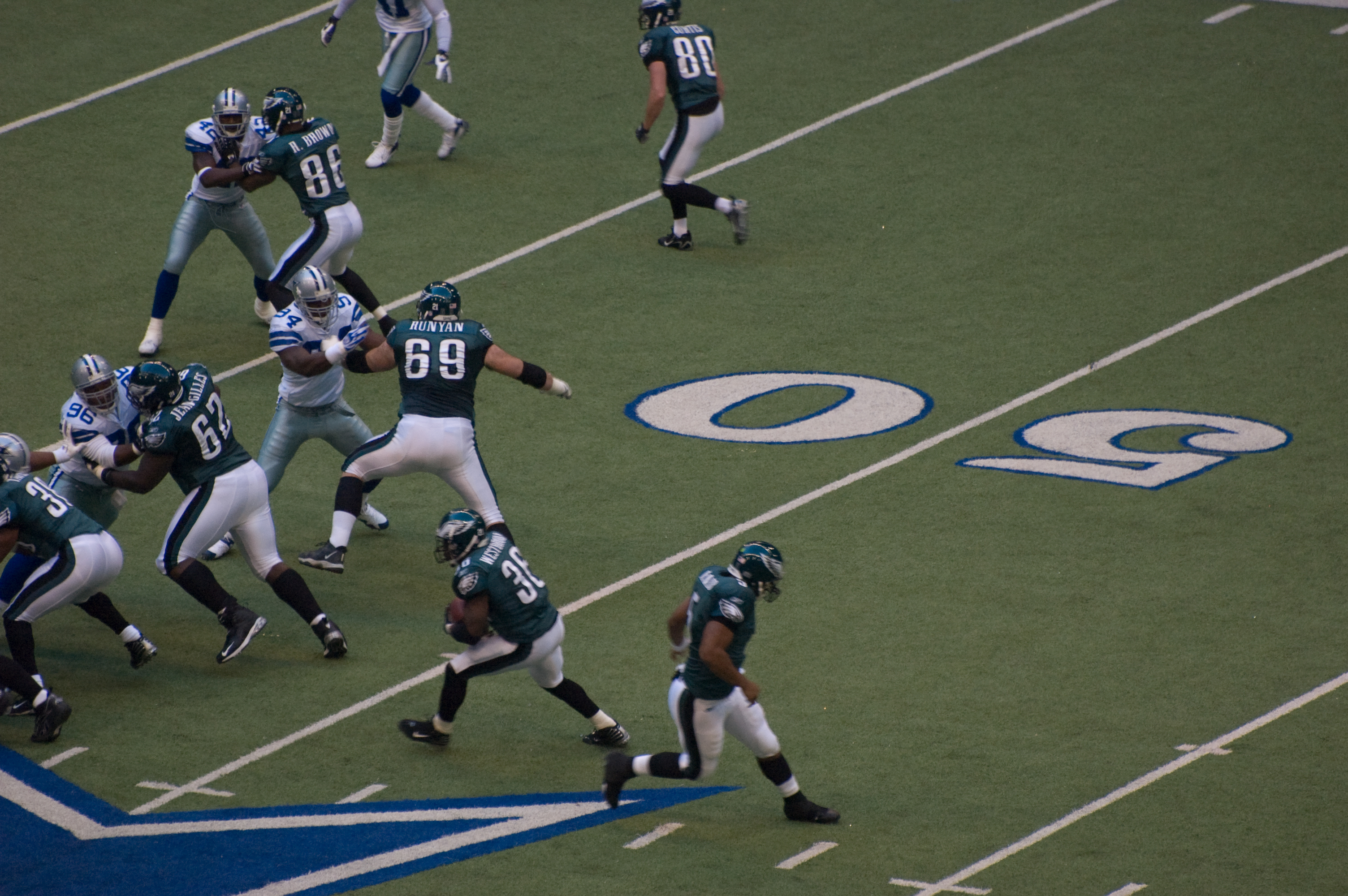 Philadelphia Eagles running back Brian Westbrook runs with the ball handed off by quarterback Donovan McNabb in a game Dec. 16, 2007 against the Dallas Cowboys.